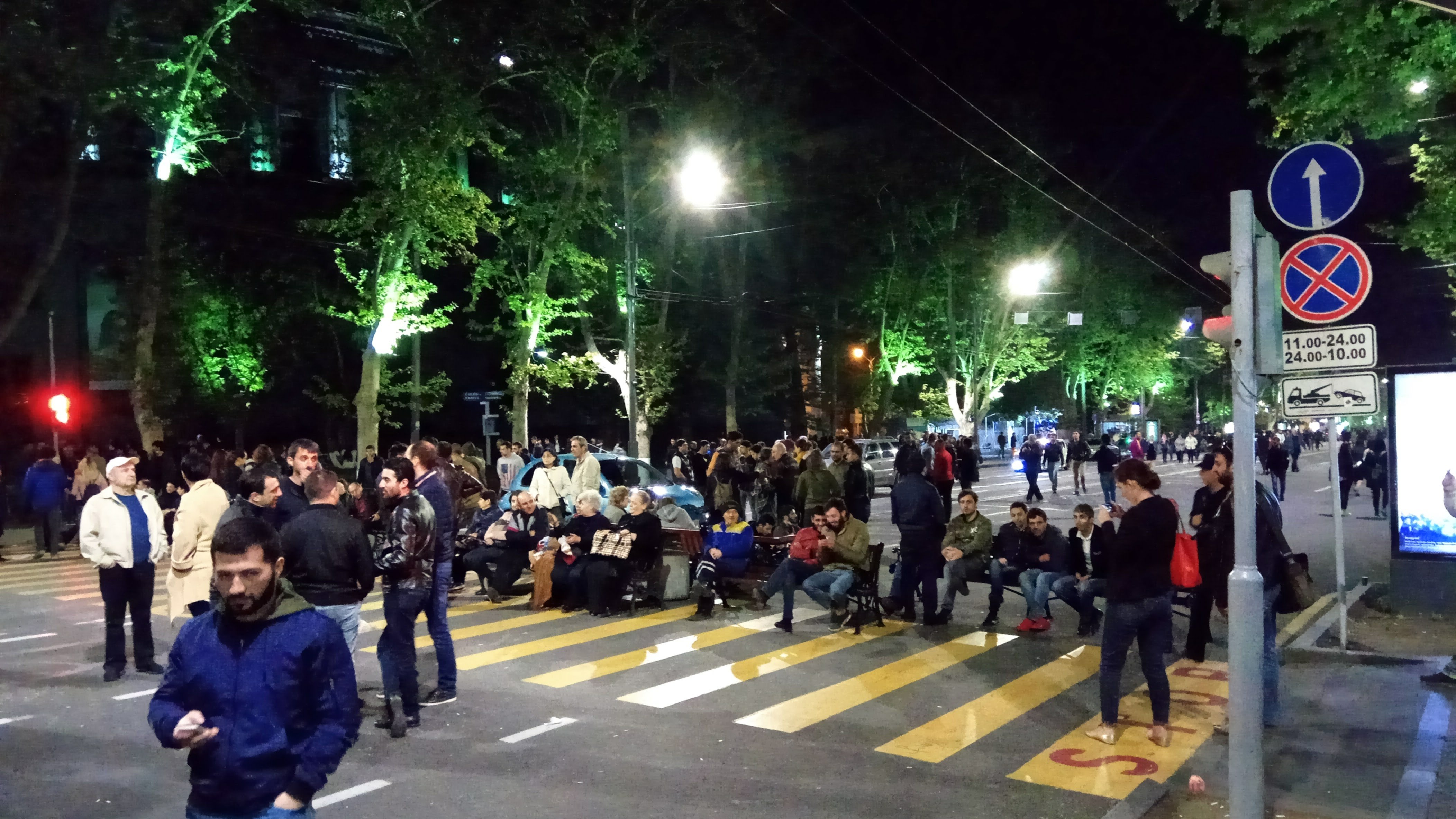 Mashtots Avenue